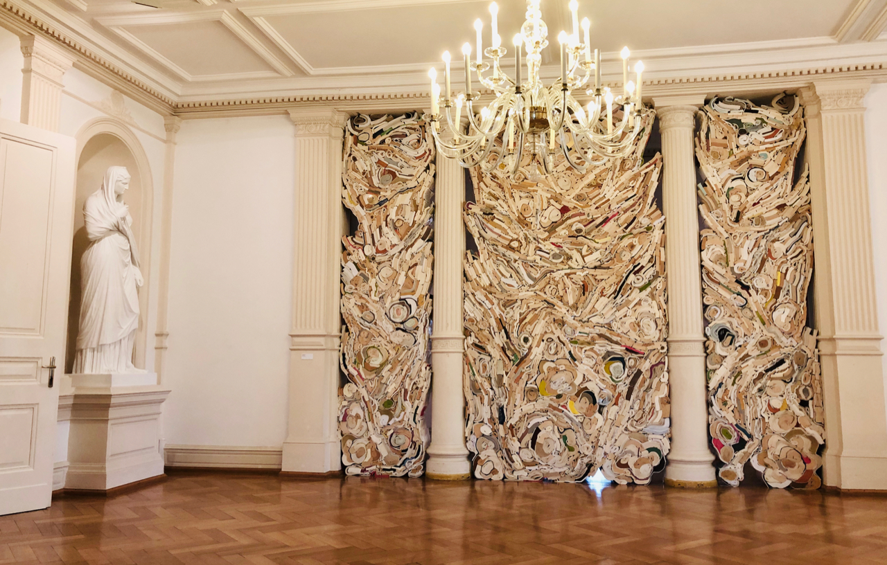 Installation View: Jonathan Callan (Artist), Court, 2018, Paper and Screws, 4,45m x 3,75 m on view at Kunstmuseum Villa Zanders, Bergisch Gladbach. The photography shows one of the prominent large book sculptures for which Callan is recognized. This piece evokes memory to his best works such as "For Stuart Callan 1962-2005" from 2005. To create this piece, the people of the city and the public library of the city of Bergisch Gladbach donated books, that Callan recycled for this sculpture with the help of his assistants.